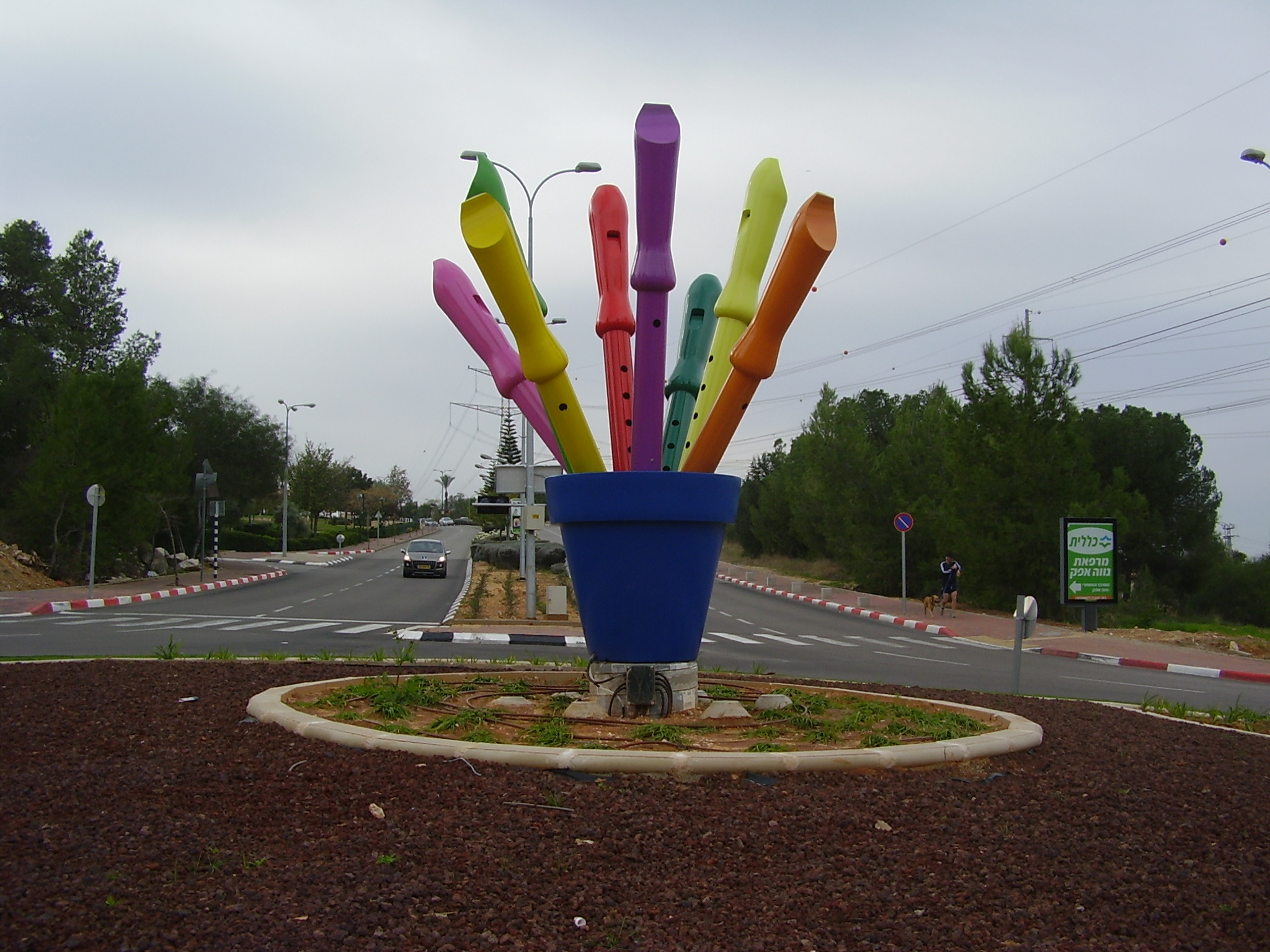 Rosh Ha'ayin music town - Flutes